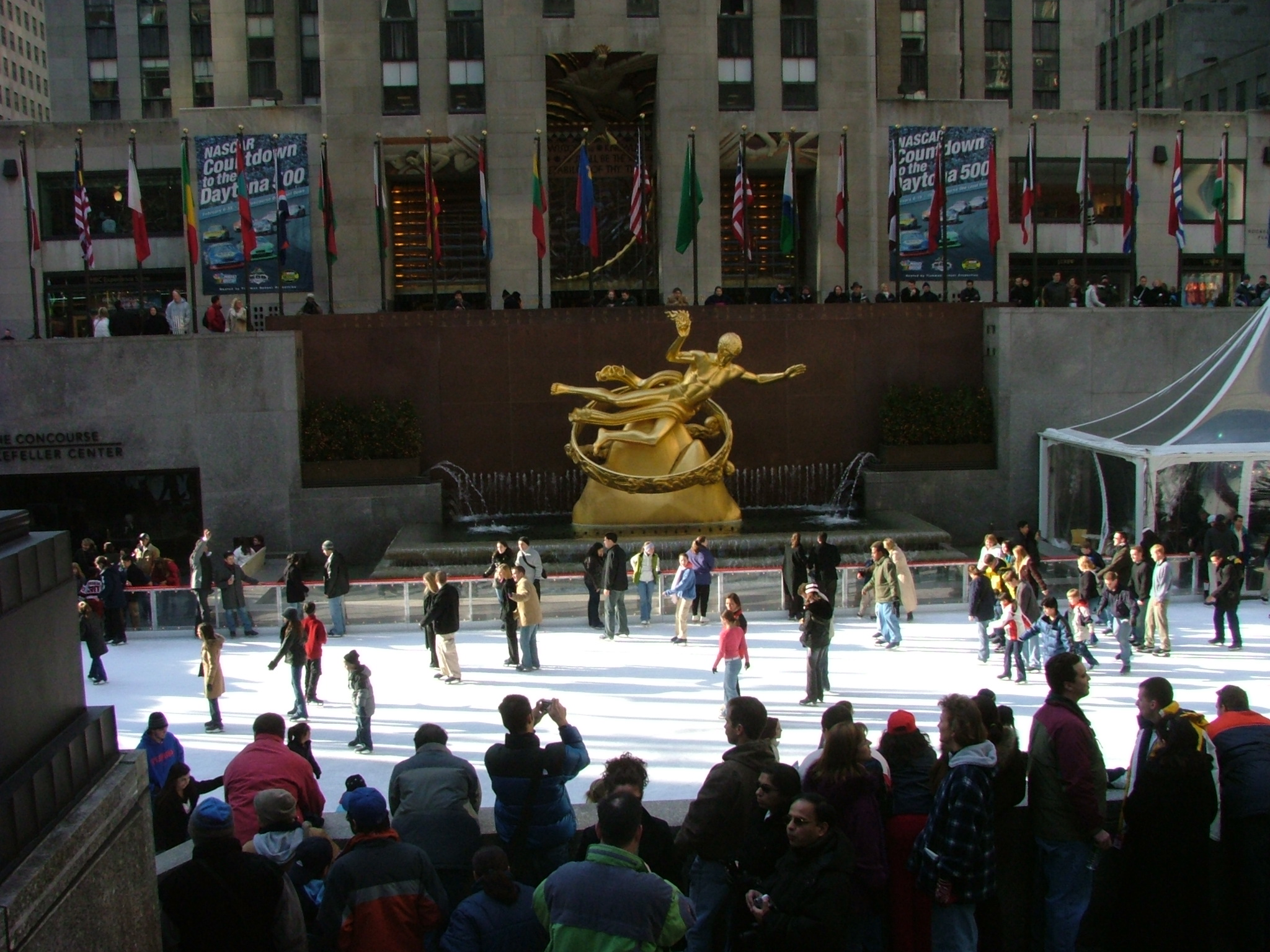 Picturs 050: Rockefeller Center Ice Skating Rink. Prometheus by Paul Manship